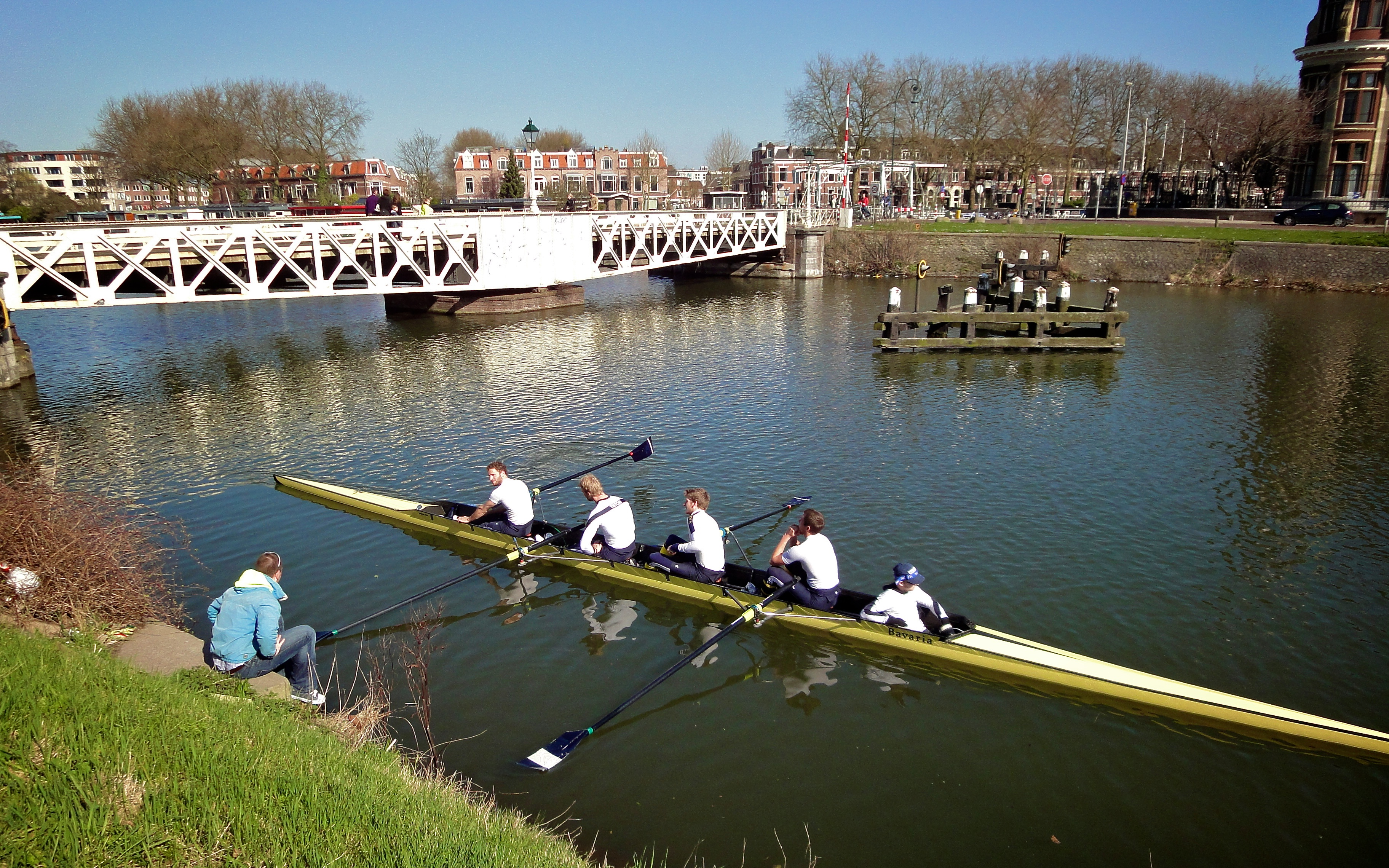 Rowing coach talks to his crew halfway through the outing at Muntbrug (Munt Bridge), Utrecht, the Netherlands.